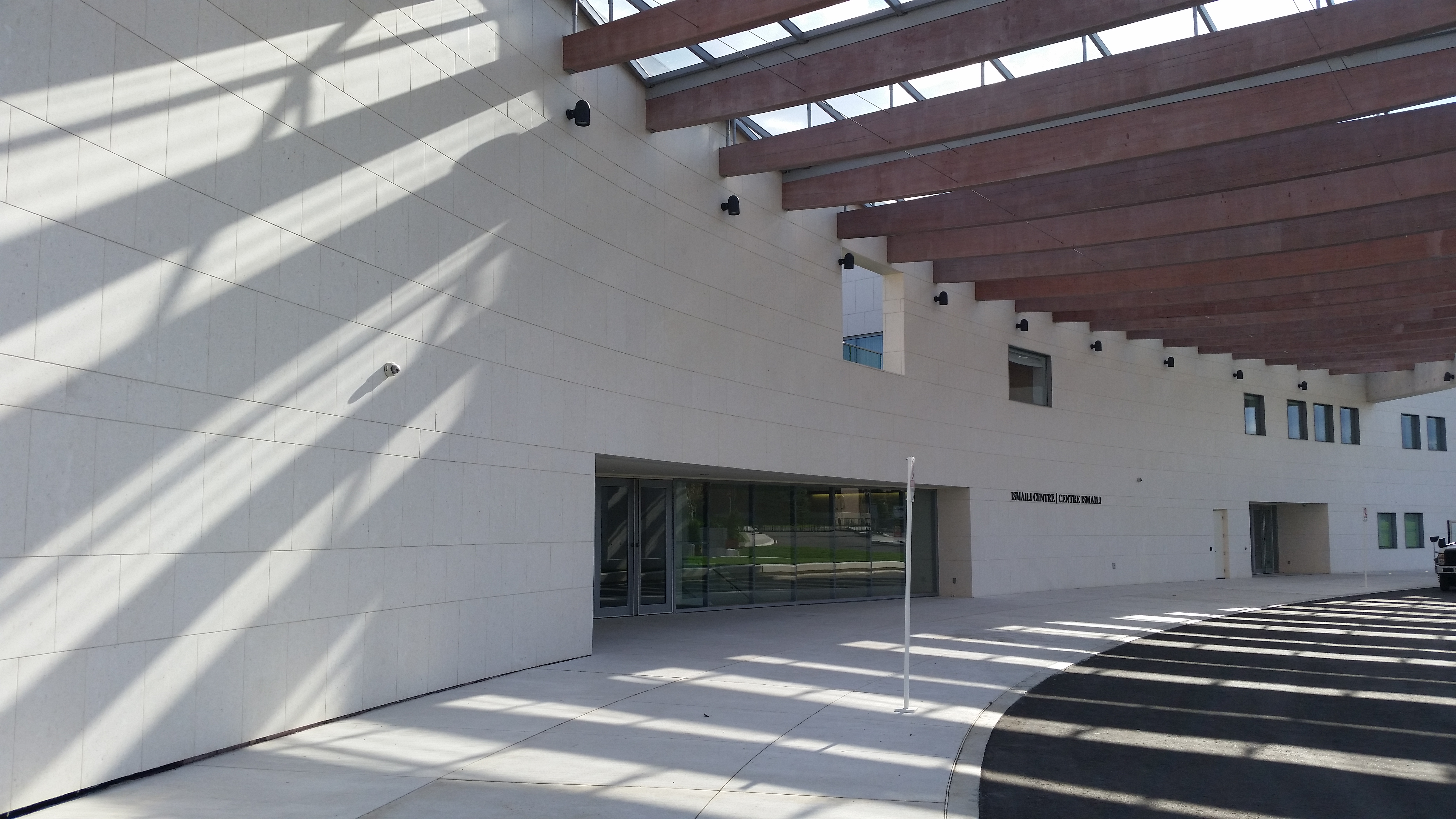 The curved main entrance to the Ismaili Centre